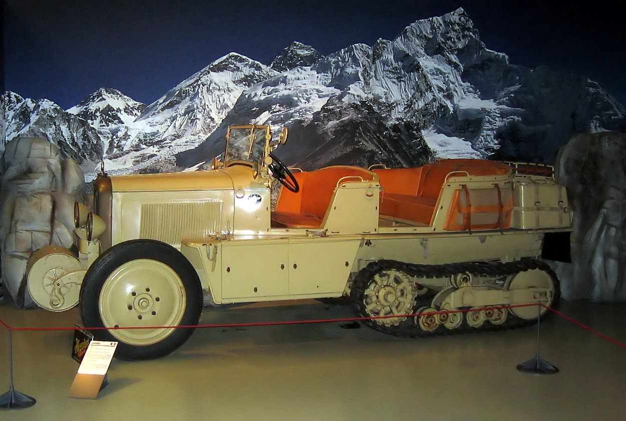 Citroën P17 half-track truck of the early 1930s "Crosière Jaune" expedition.